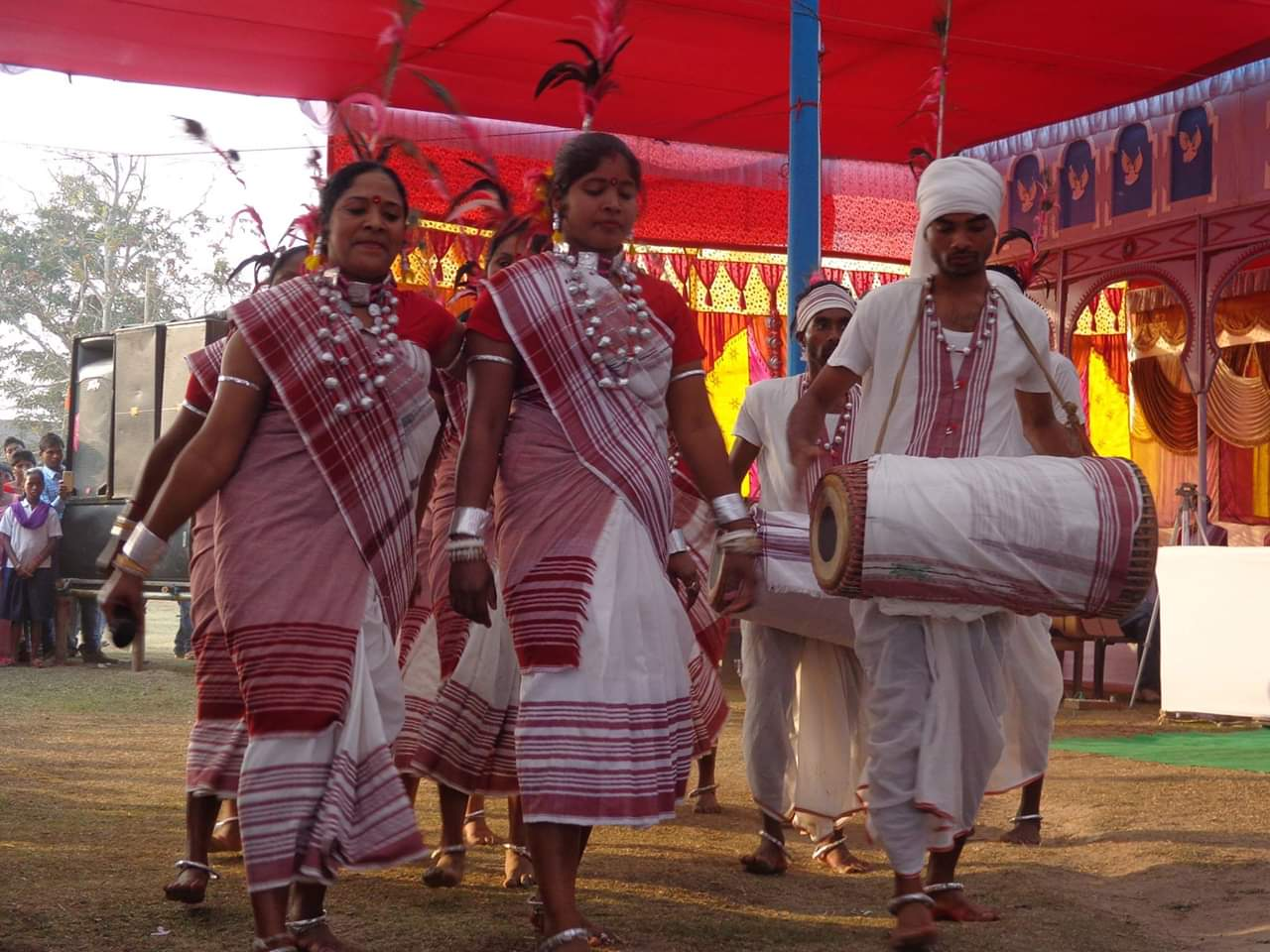 Cultural dance of the Kurukh Oraon community.